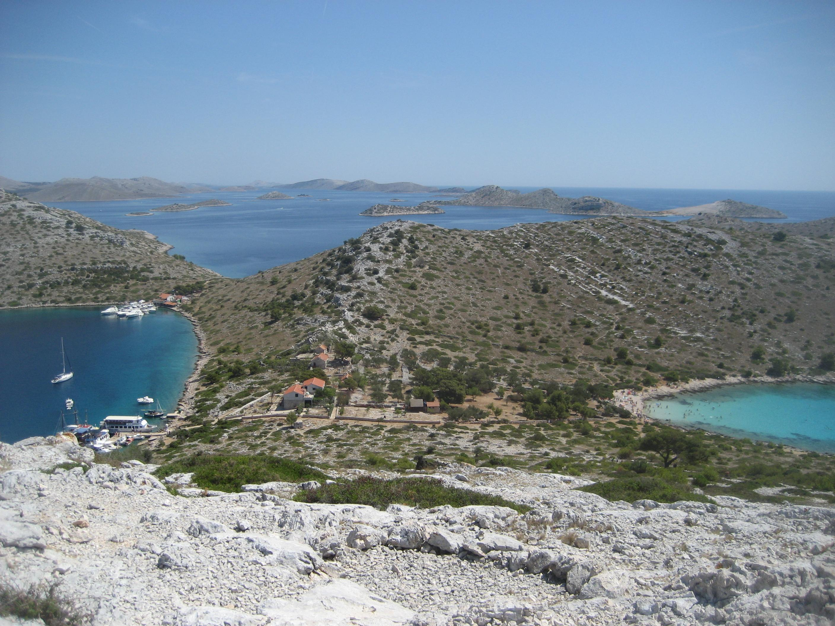 View at Kornati Islands, Croatia